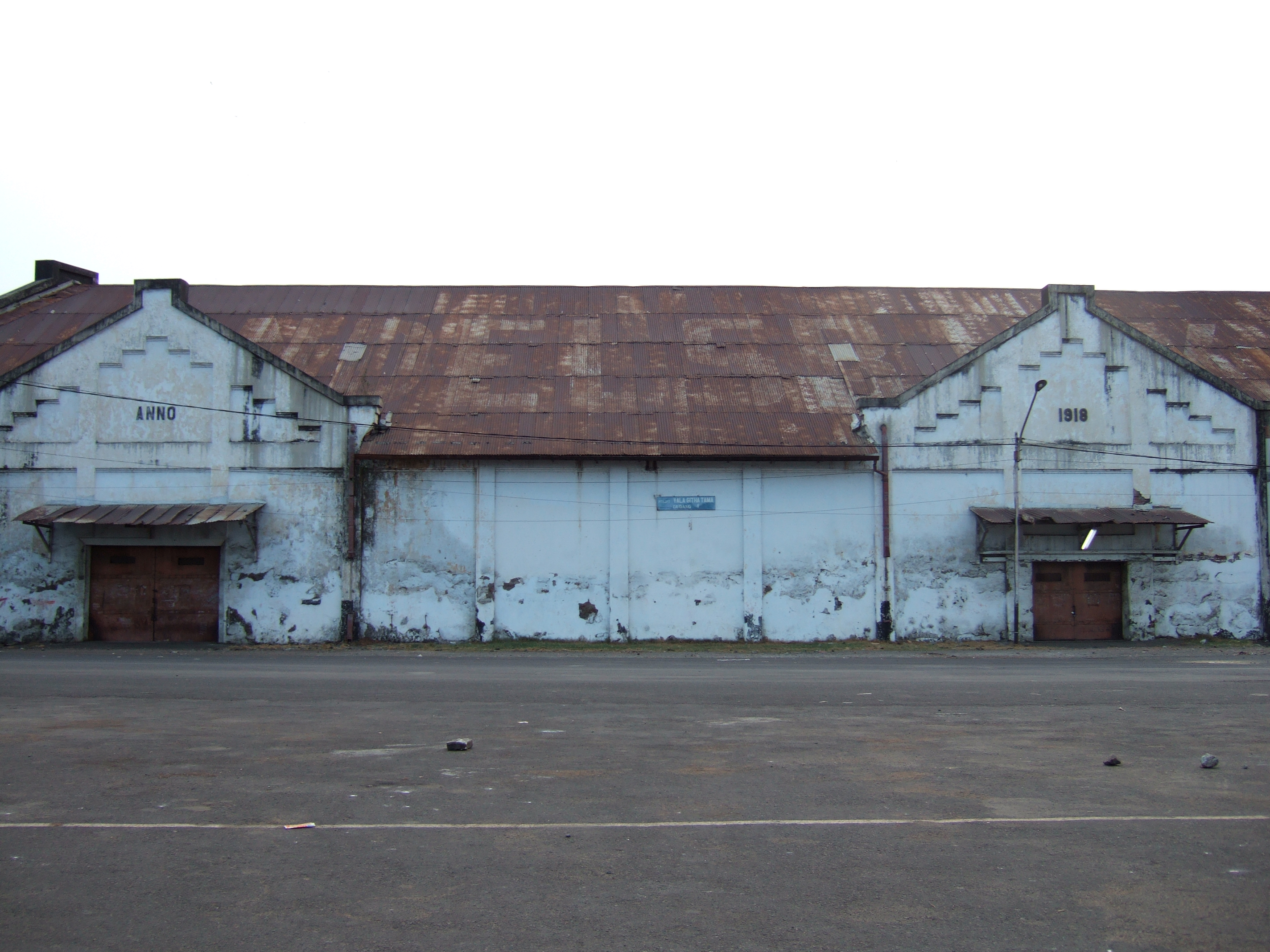 Warehouse built in 1918, Port of Cirebon, West Java, Indonesia